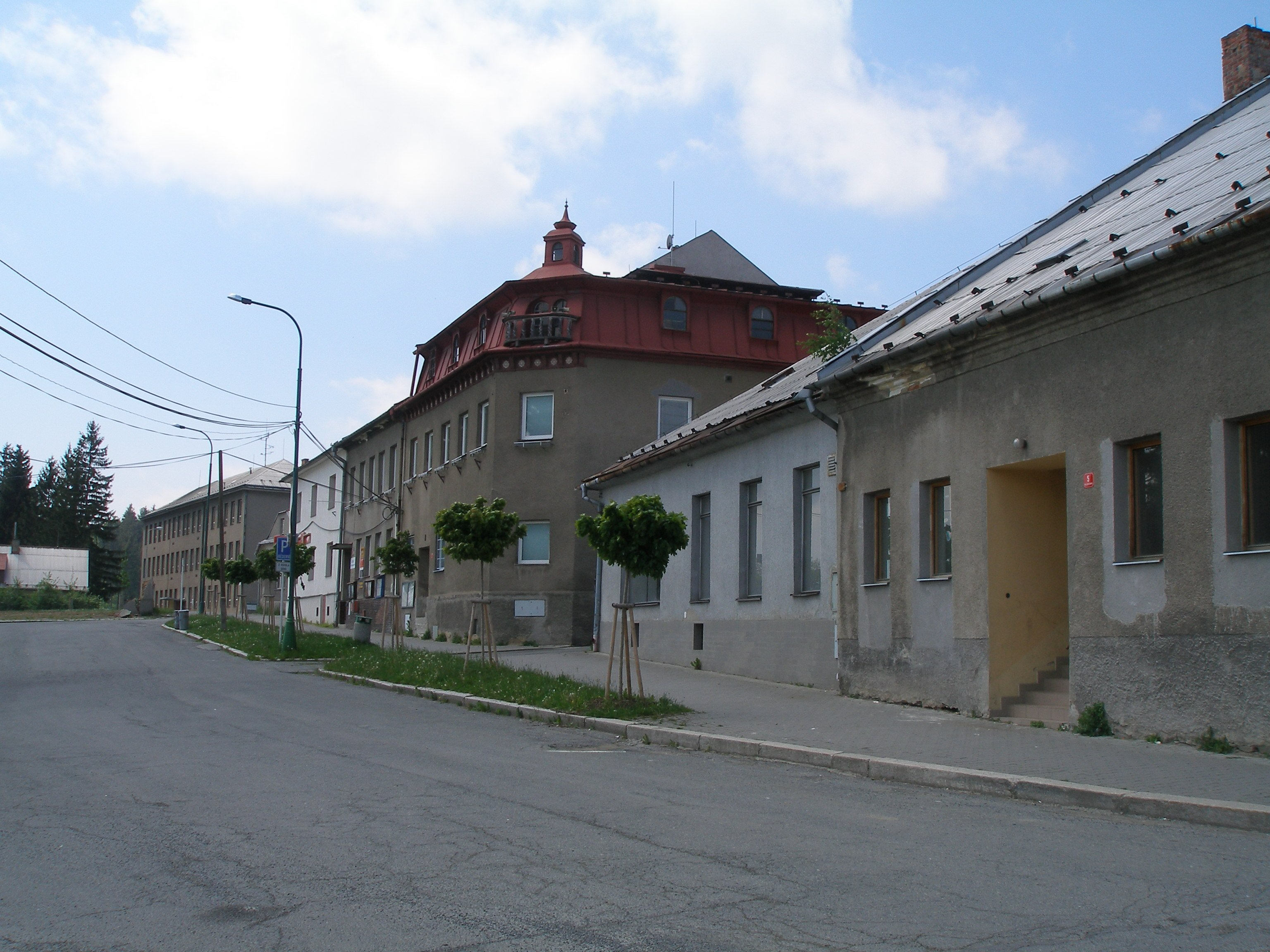 Město Libavá - North-Western side of the square